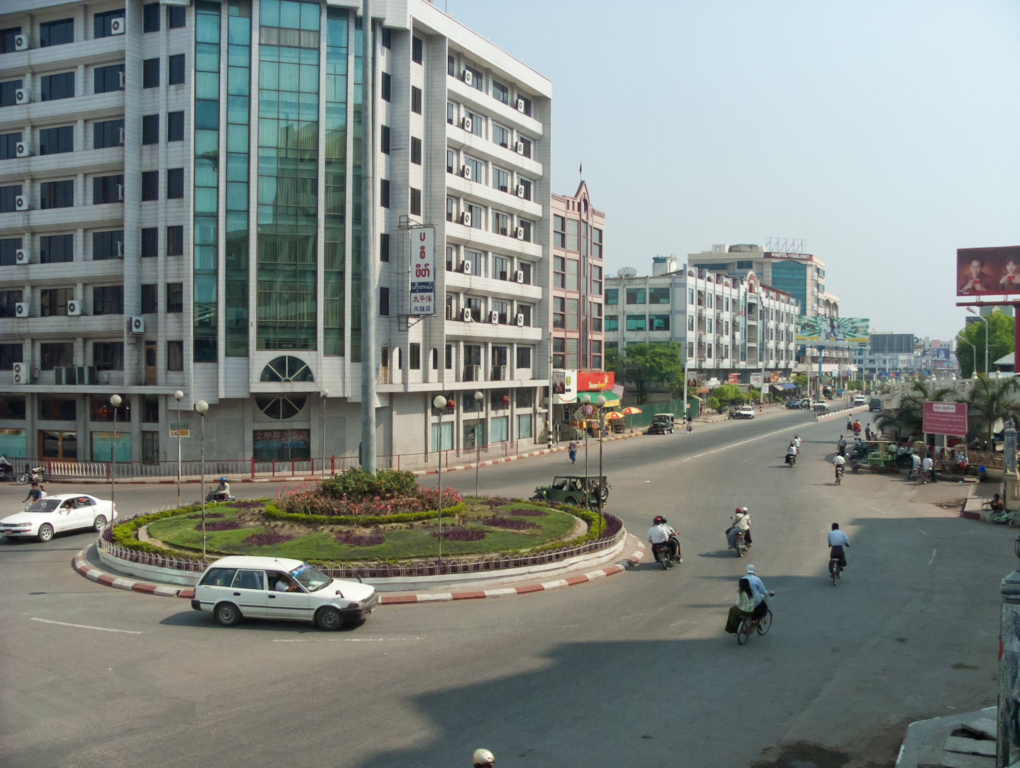 Traffic circle at Mandalay, near the train station